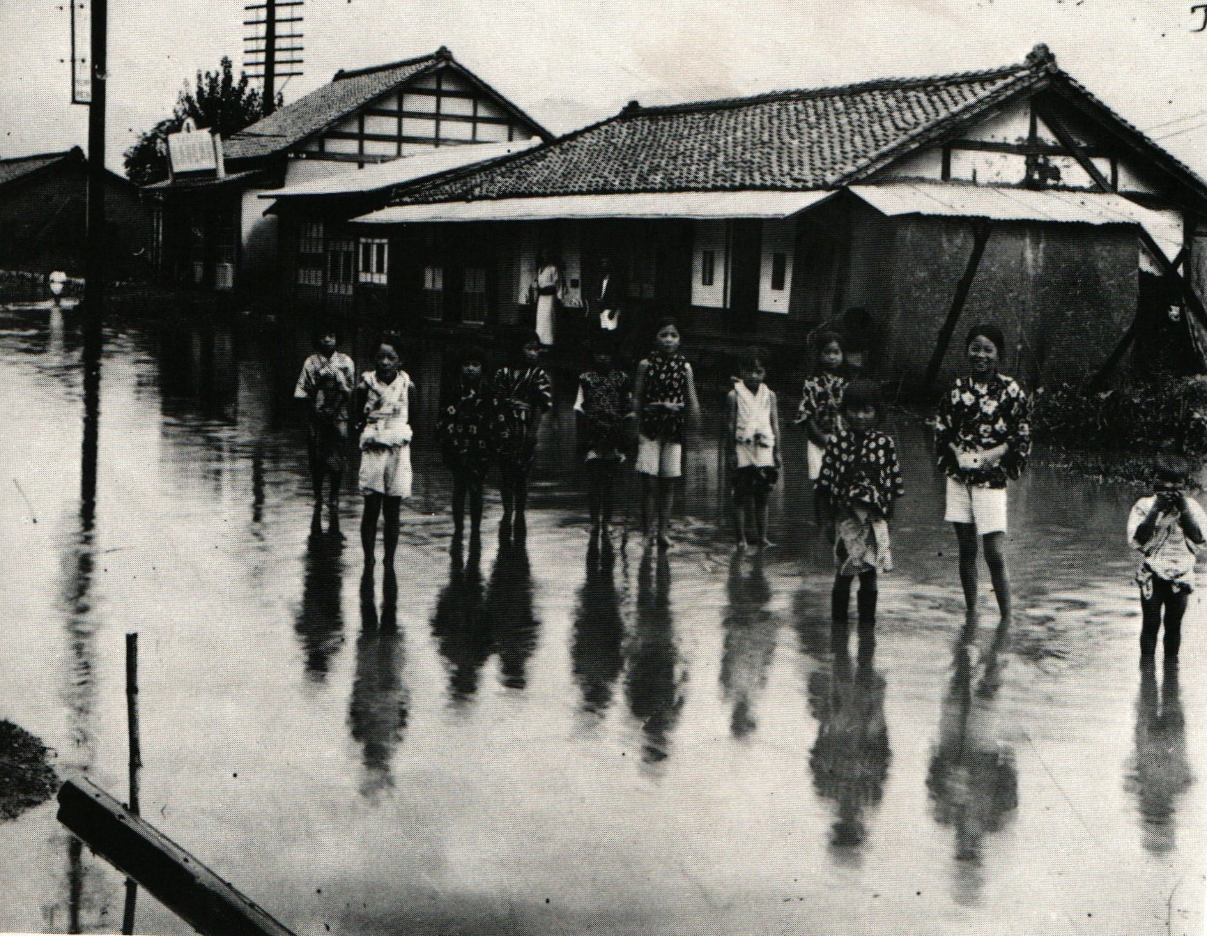 Children of water-covered road in heavy rain. August 1925. Sakaori Kofu current district.